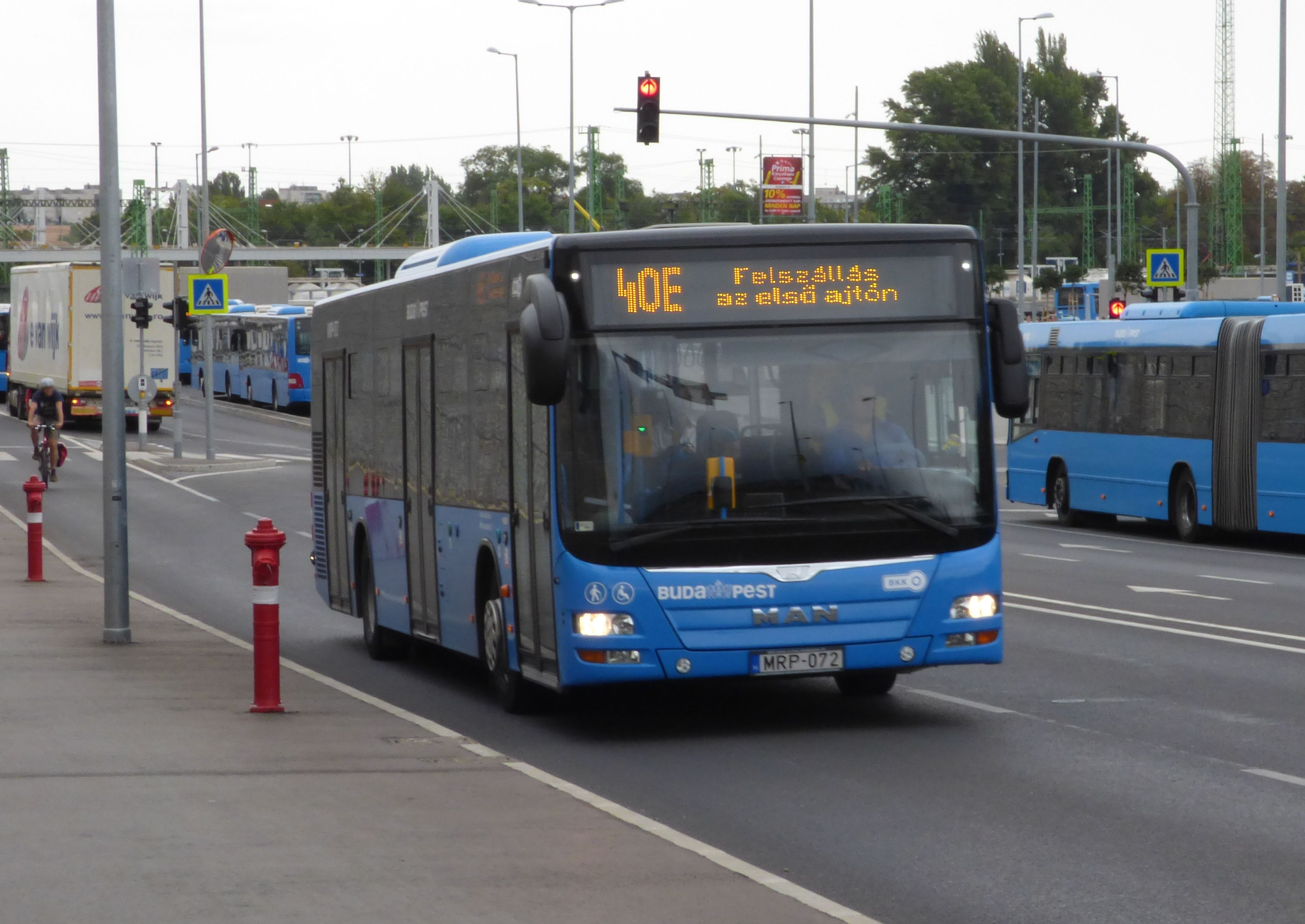 MAN A21 Lion's City bus, Budapest, bus line 40E (reg. MRP-072)